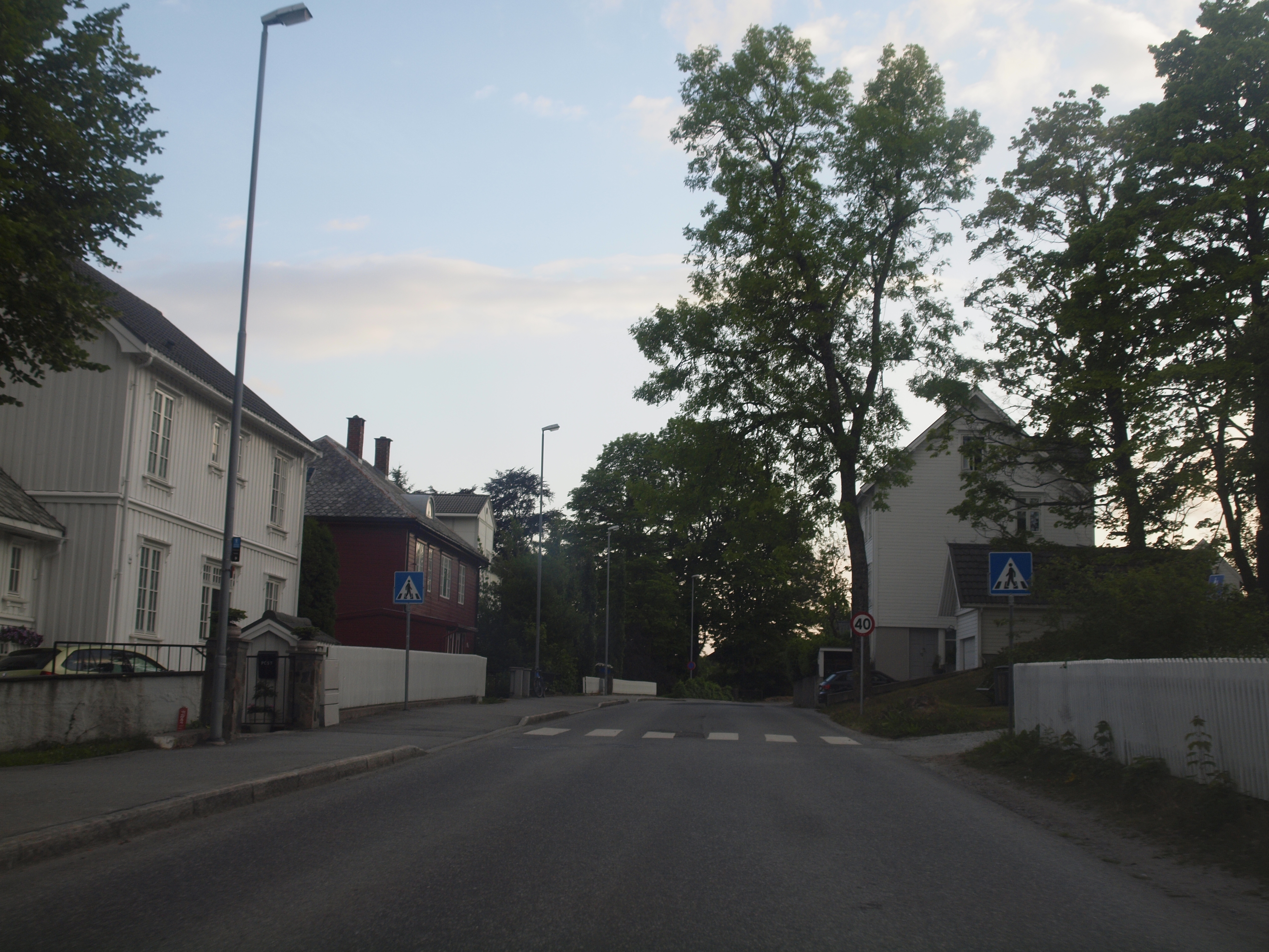 Road in Molde, Norway